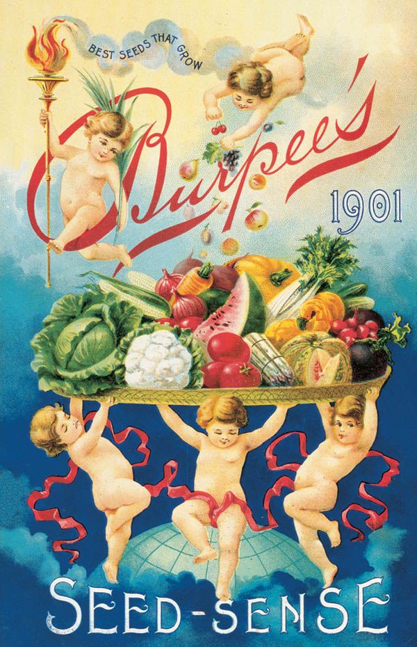 The front cover of a 1901 Burpee Seed-Sense catalog